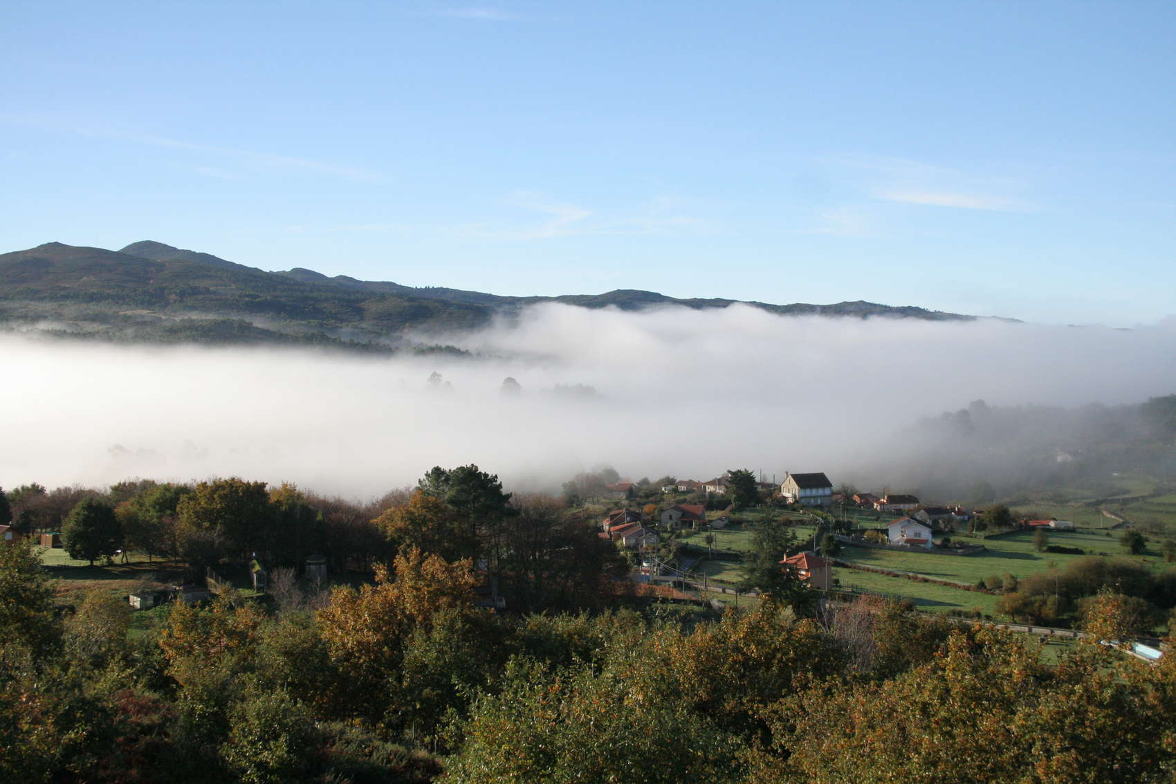 O Eido de Baixo, Verducido, A Lama (Spain)